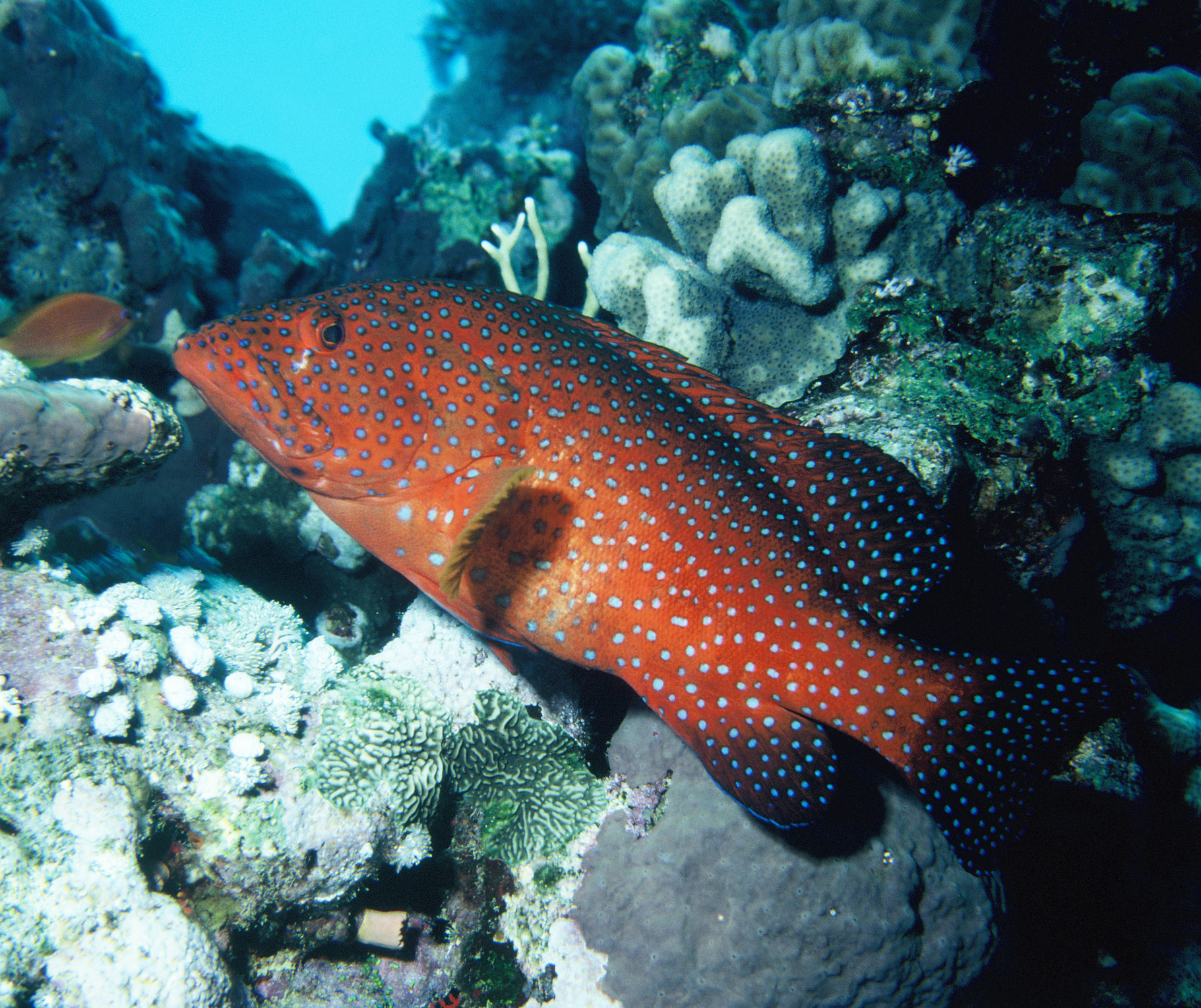 Cephalopholis miniata